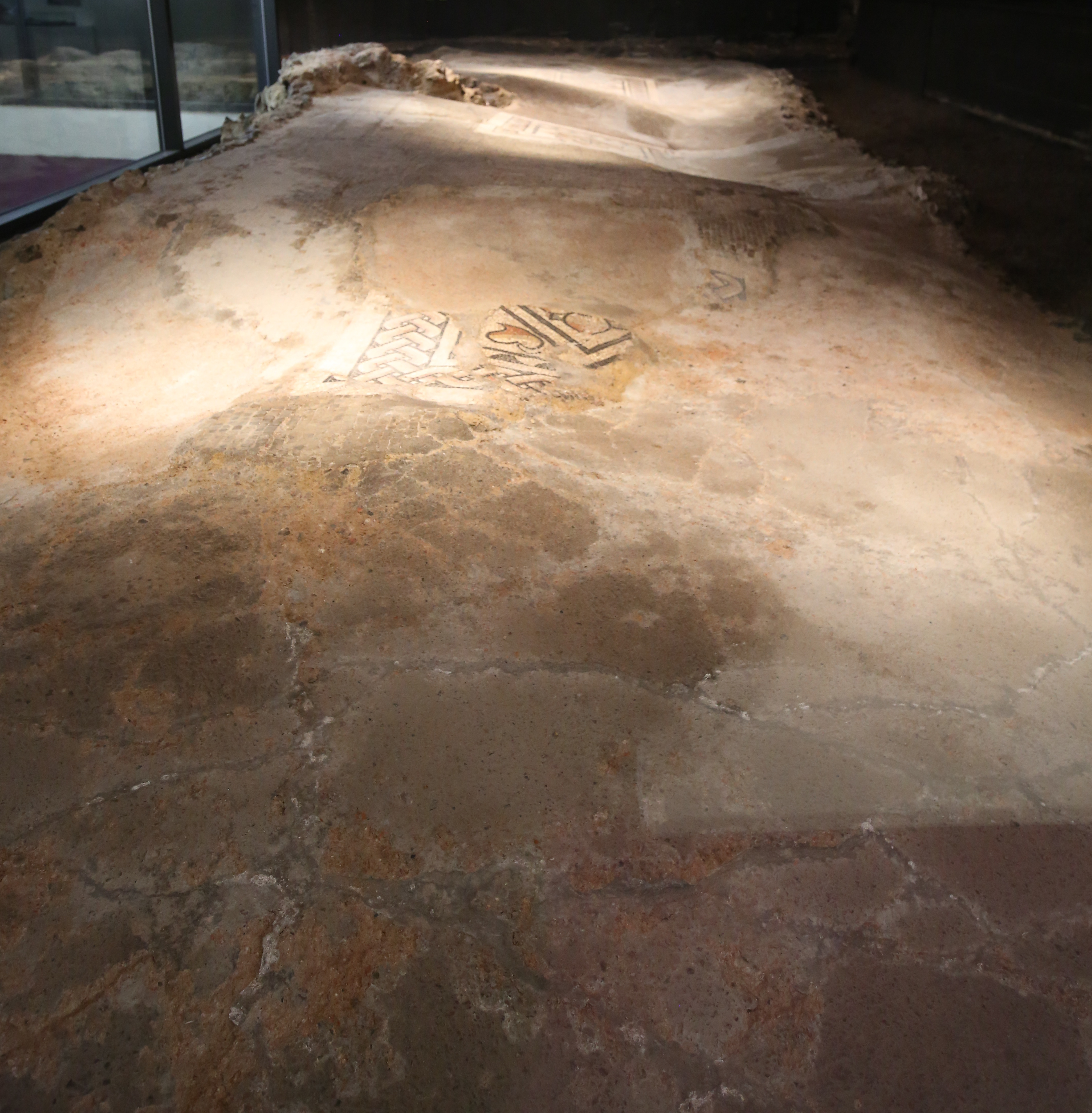 Photo of the in-situ roman mosaic at the Canterbury Roman Museum